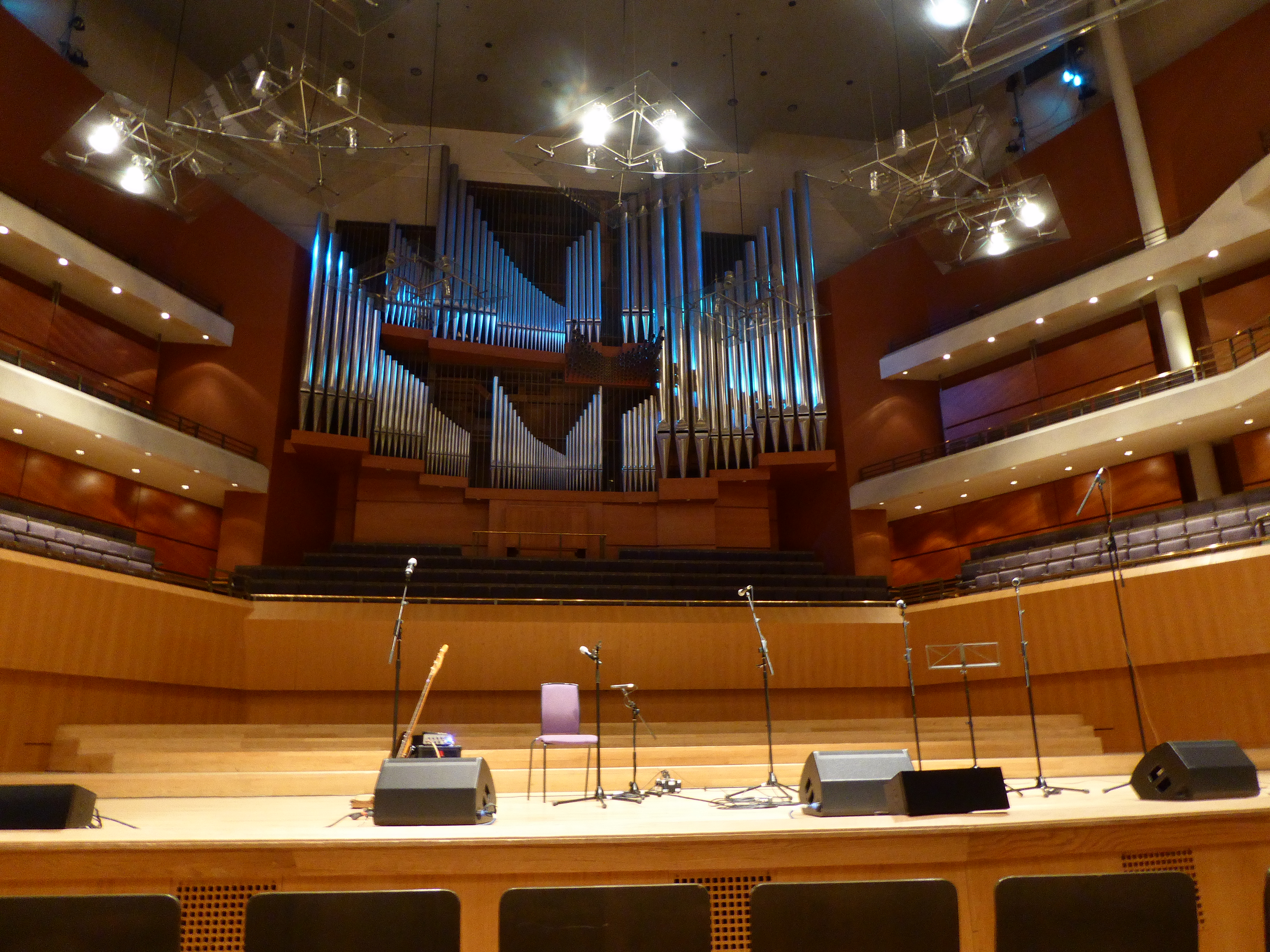 Bridgewater Hall, Lower Mosley Street, Manchester, Greater Manchester, England, January 2017